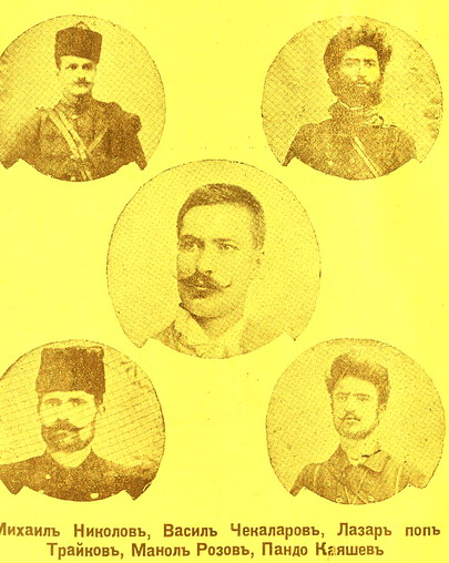 Leaders of Kastoria/Kostur IMARO